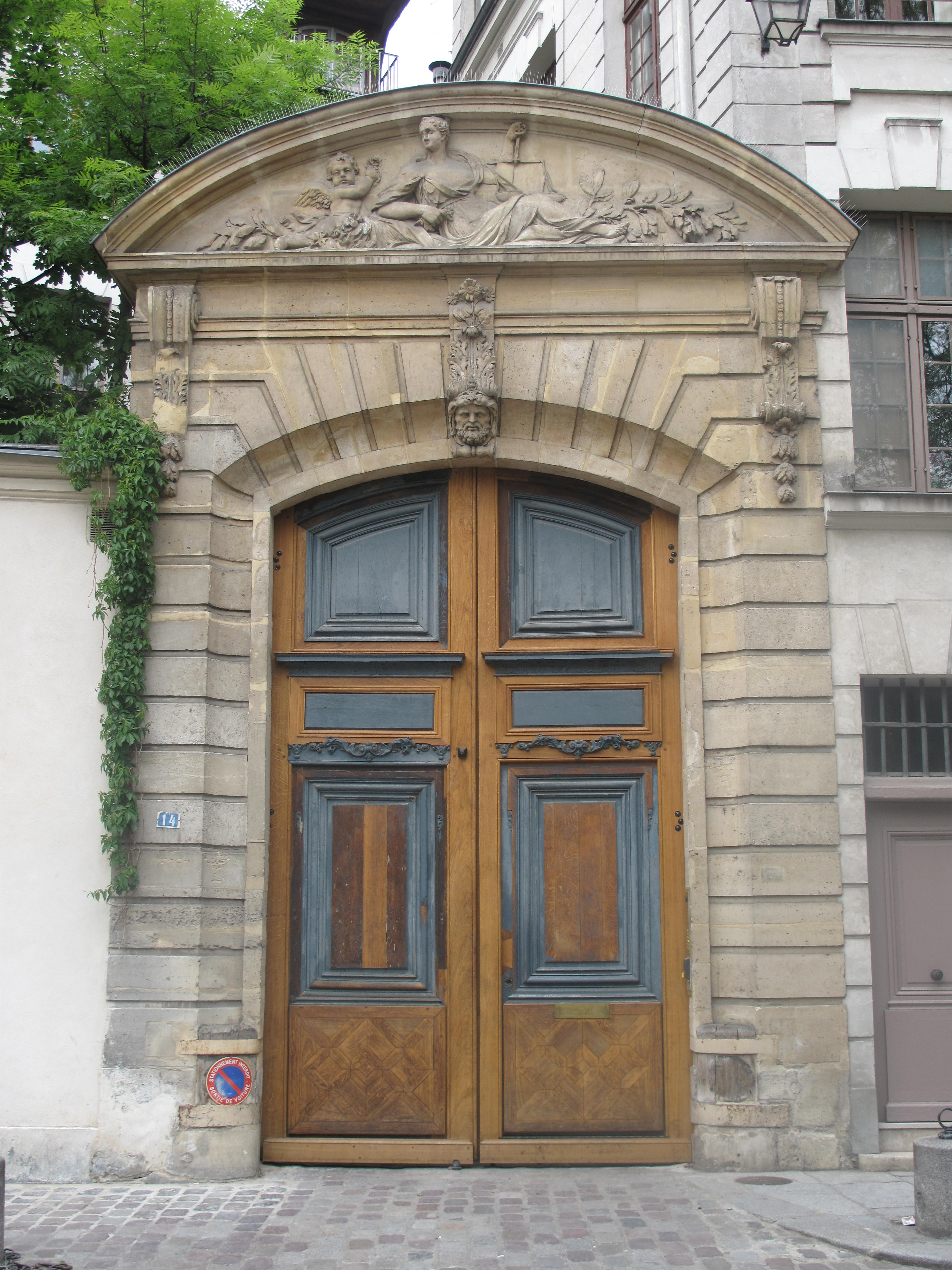 Entrance of the hôtel Laffemas : 14 rue Saint-Julien-le-Pauvre, Paris 5th arr.